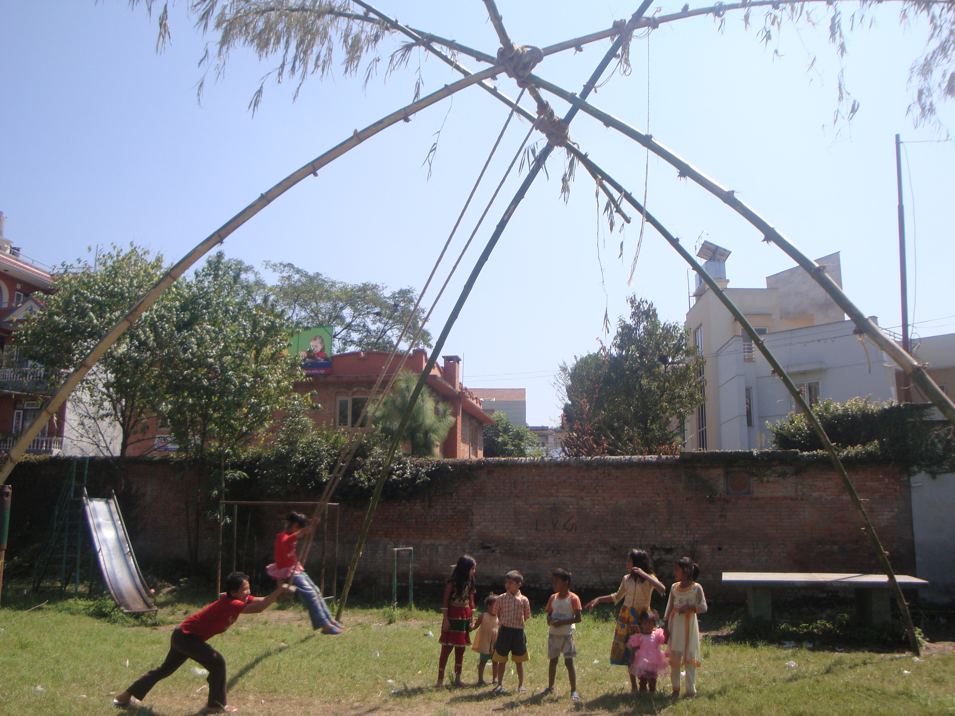 kids enjoying in the traditional nepali swing in a park